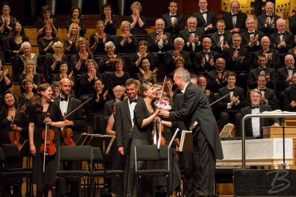 Choir + Uwe